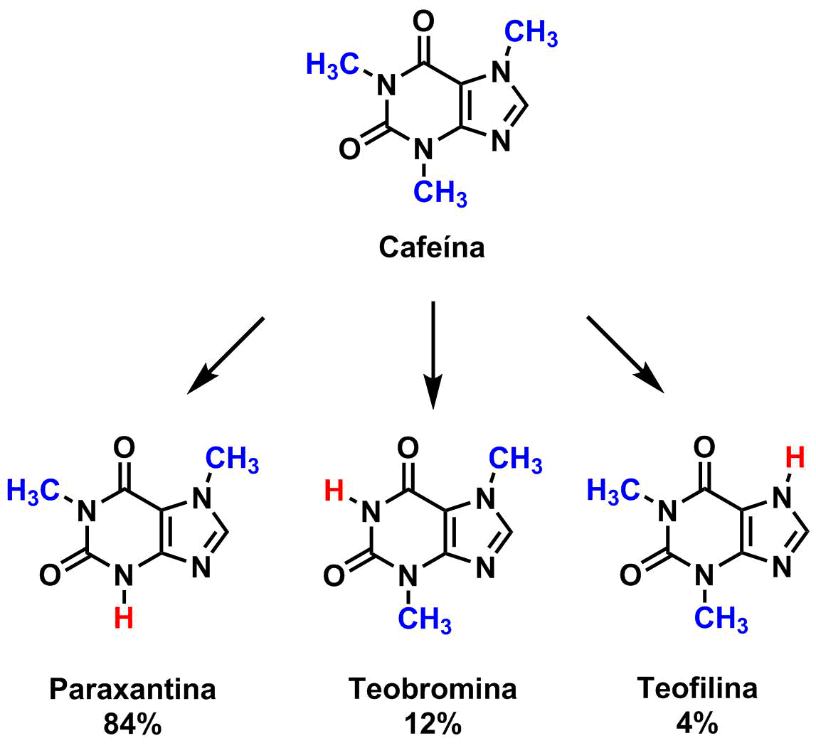 Transformation of caffeine into its metabolites.